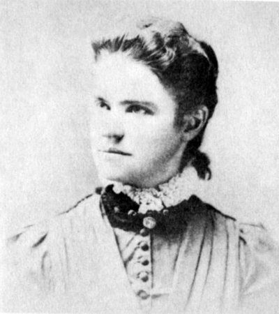 Rachel Foster Avery (1858–1919)